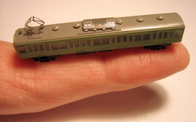 An Eishindo T Gauge model of a Japanese commuter railcar poses on the photographer's finger.